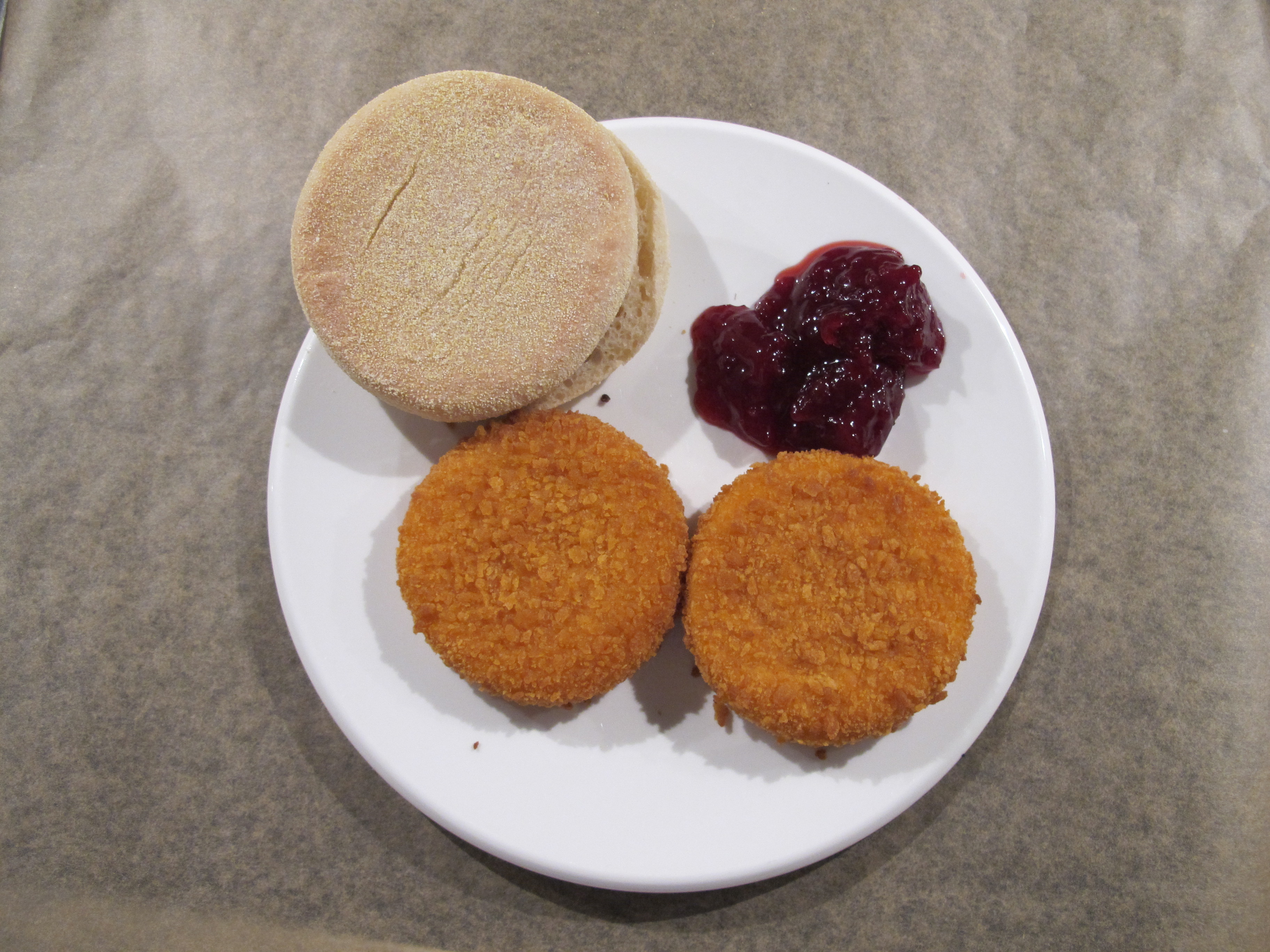 Baked Camembert with lingonberry sauce and an English muffin